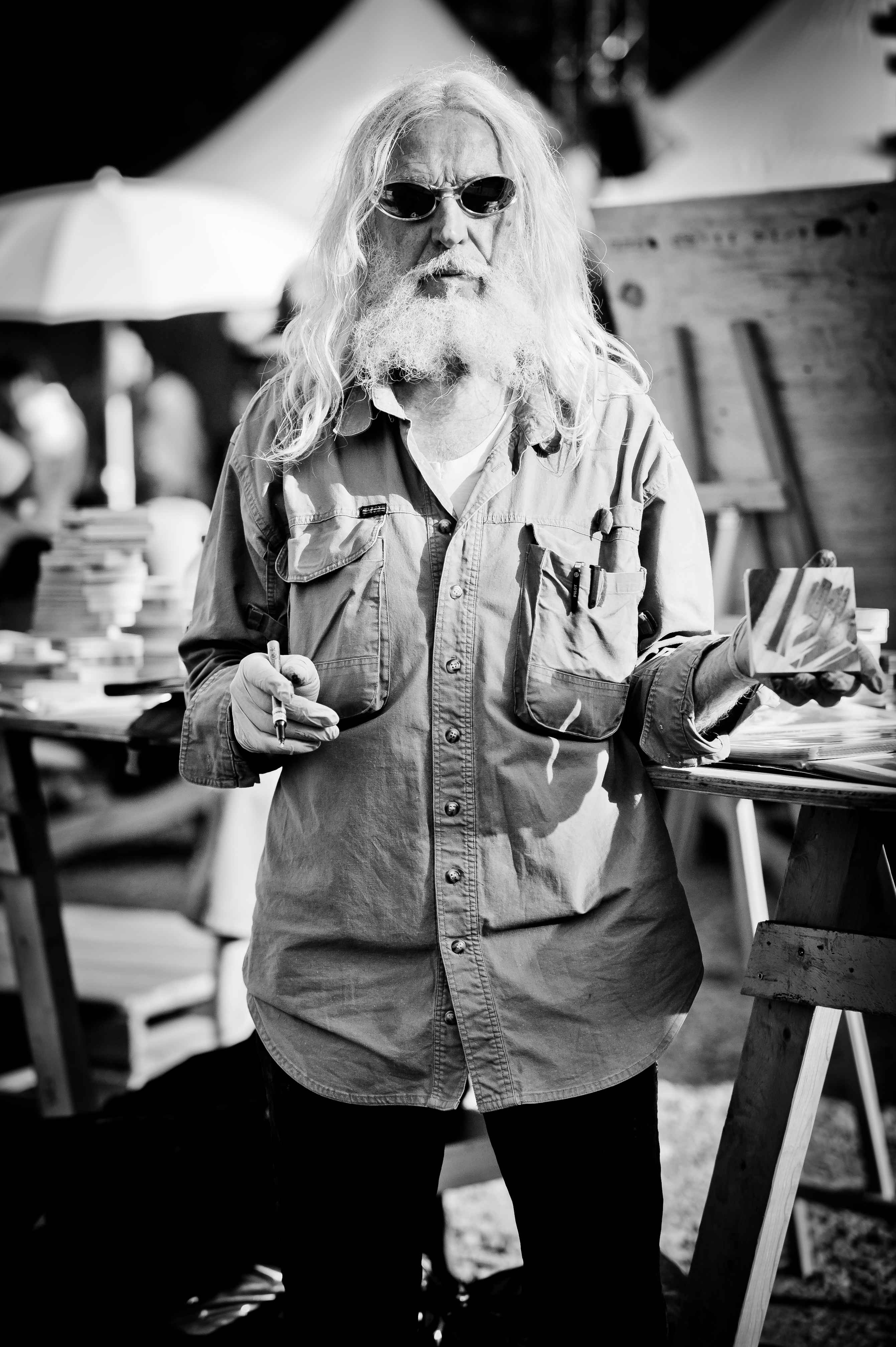 Armand Vaillancourt - ARMAND VAILLANCOURT @ C2-MTL. CHARLES WILLIAM PELLETIER / C2-MTL